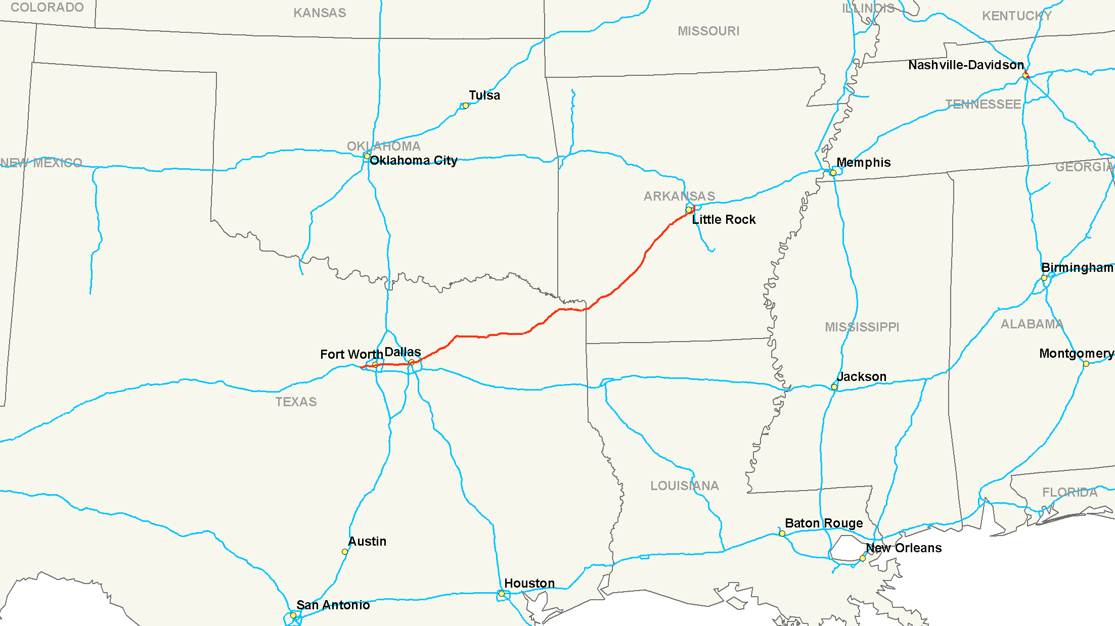 Map of Interstate 30